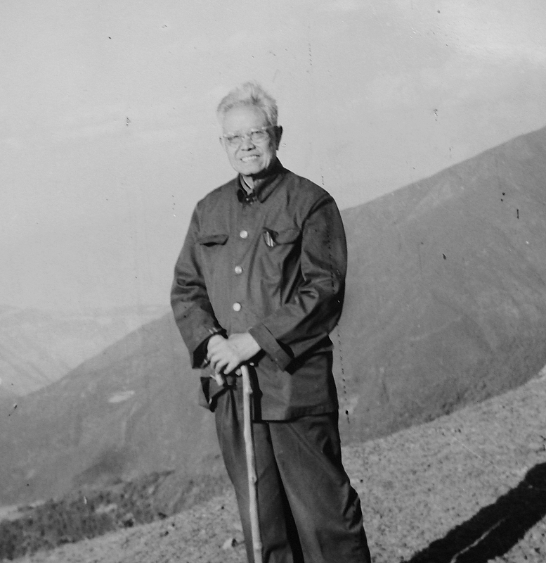 Chinese geologist Chang Longqing (1904–1979)